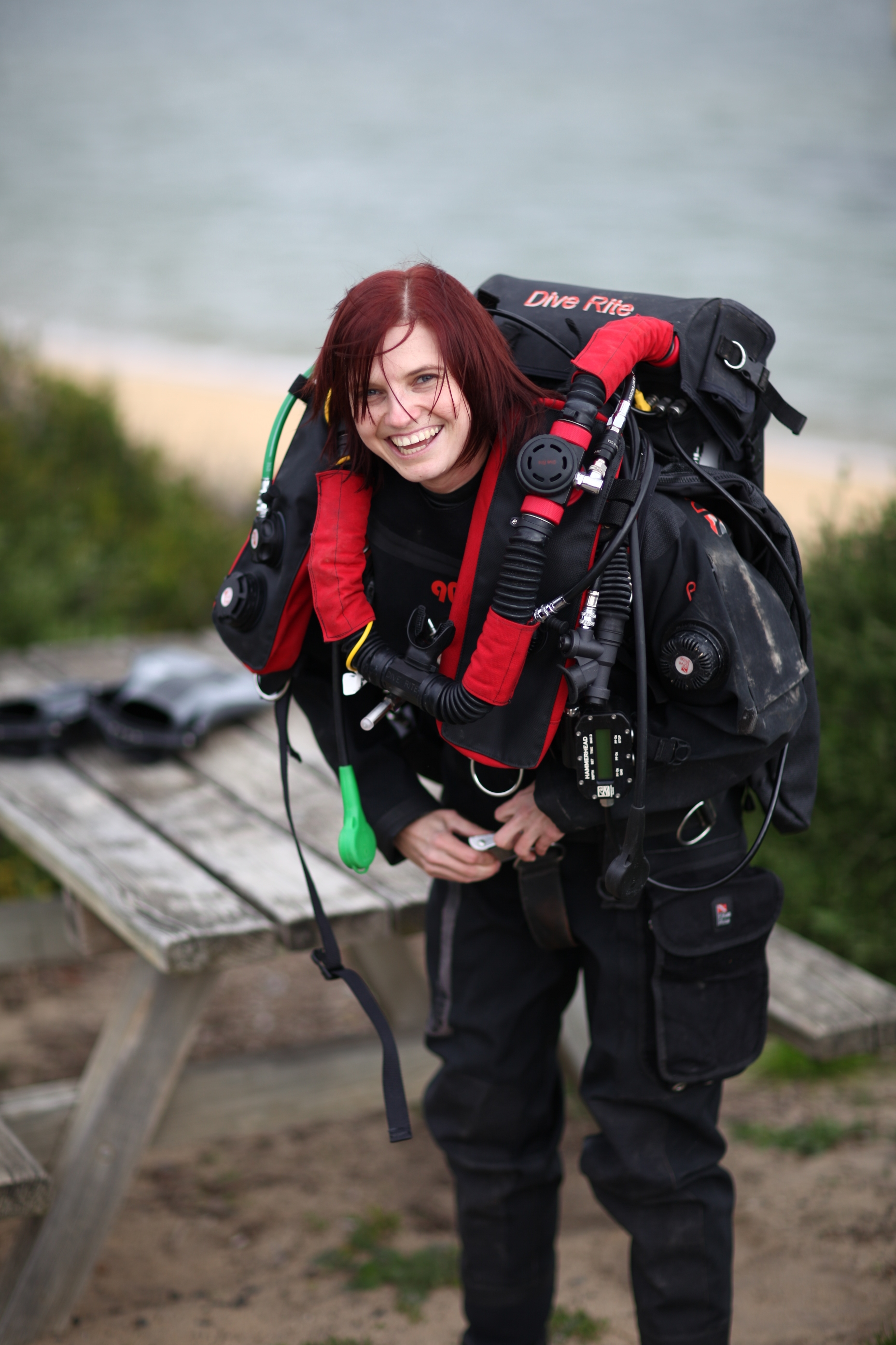 Agnes Milowka, world renowned underwater cave diver and explorer, photo by James Axford, on 2010 at Melbourne Port Phillip Bay location